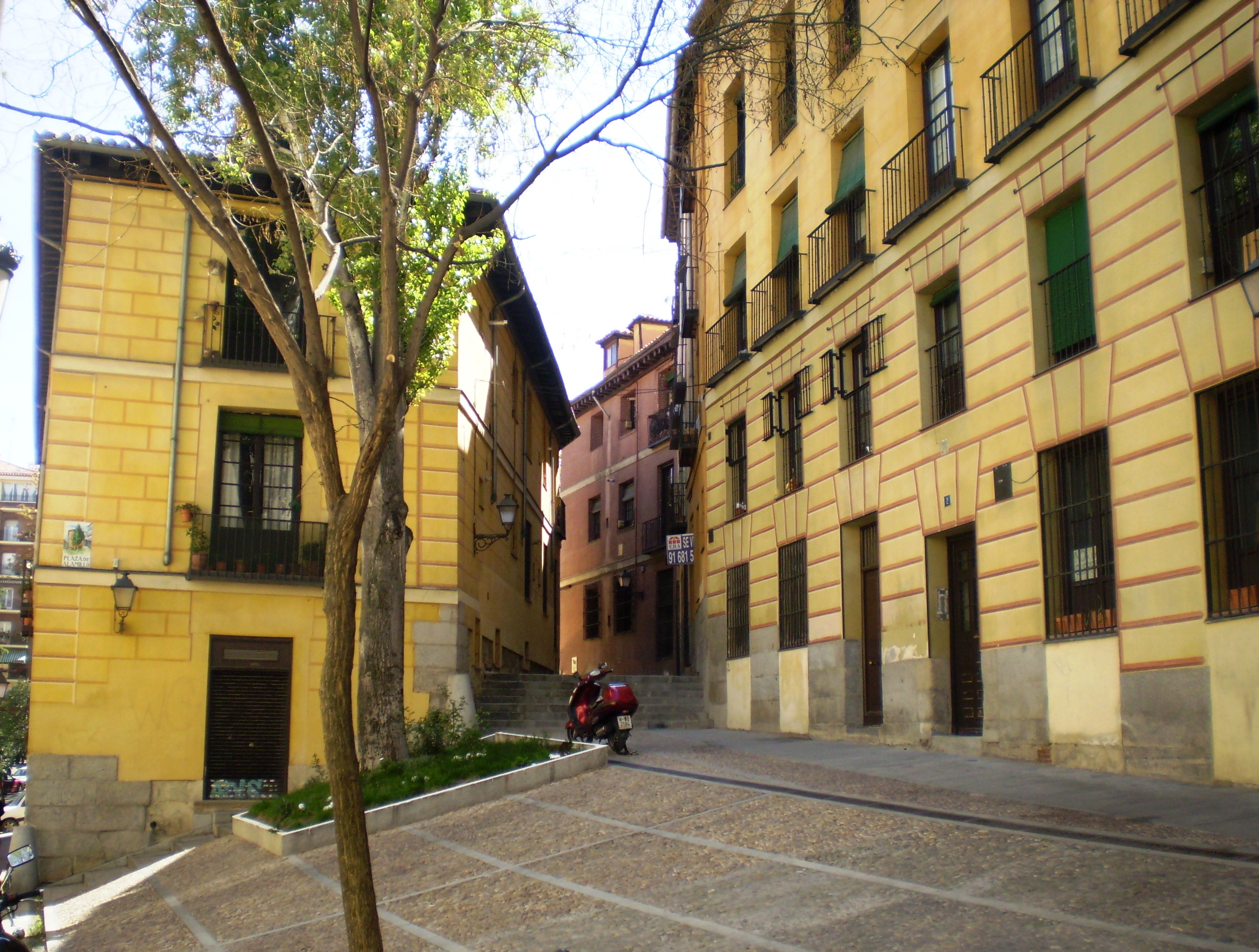 Square of Alamillo, Madrid, Spain